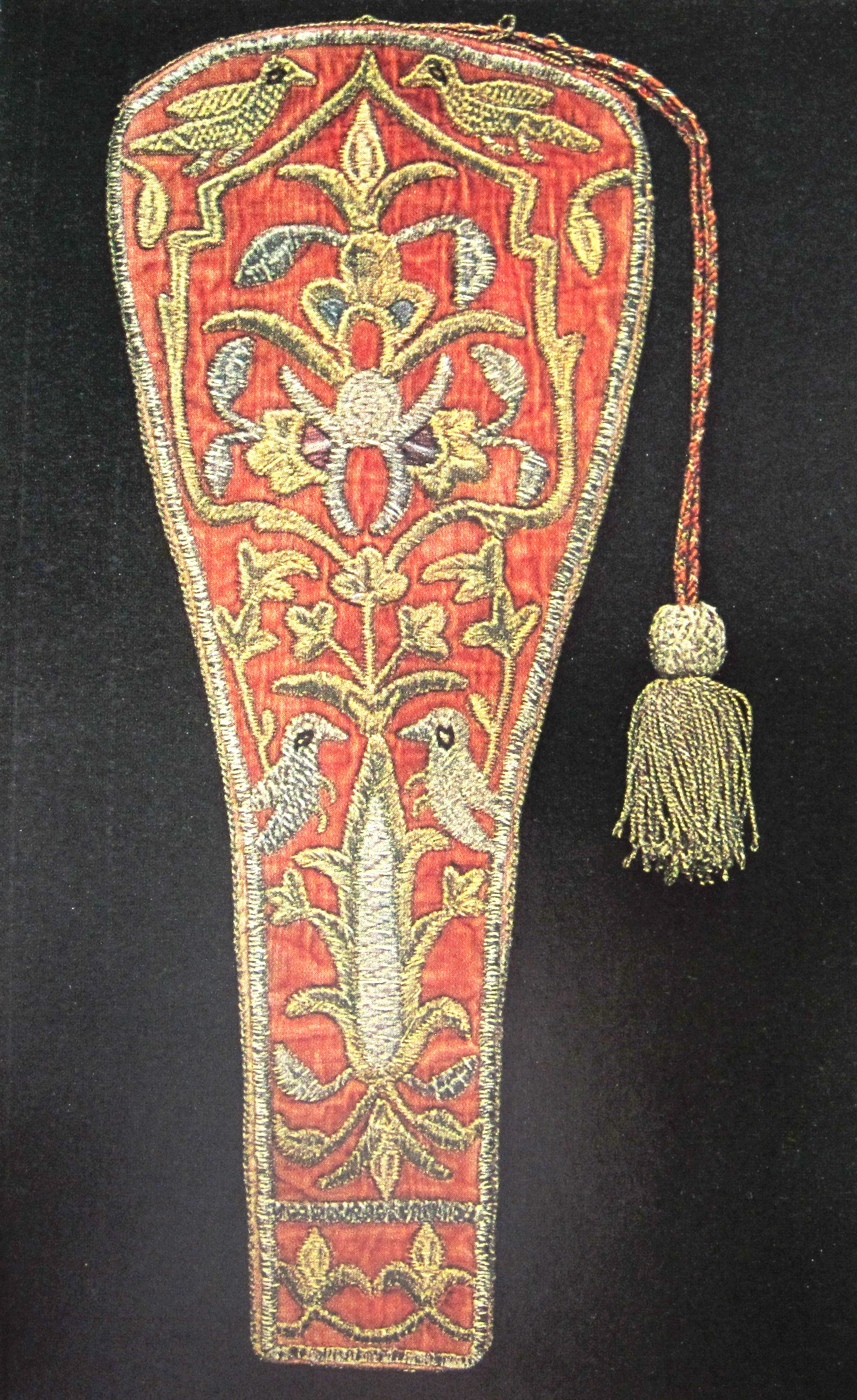 A 16th-century pistol holster from Tbilisi, Georgia. Satin-stitch embroidery with gold and silver thread on velvet, silk and cotton. 32X13 cm. Art Museum of Georgia, Tbilisi